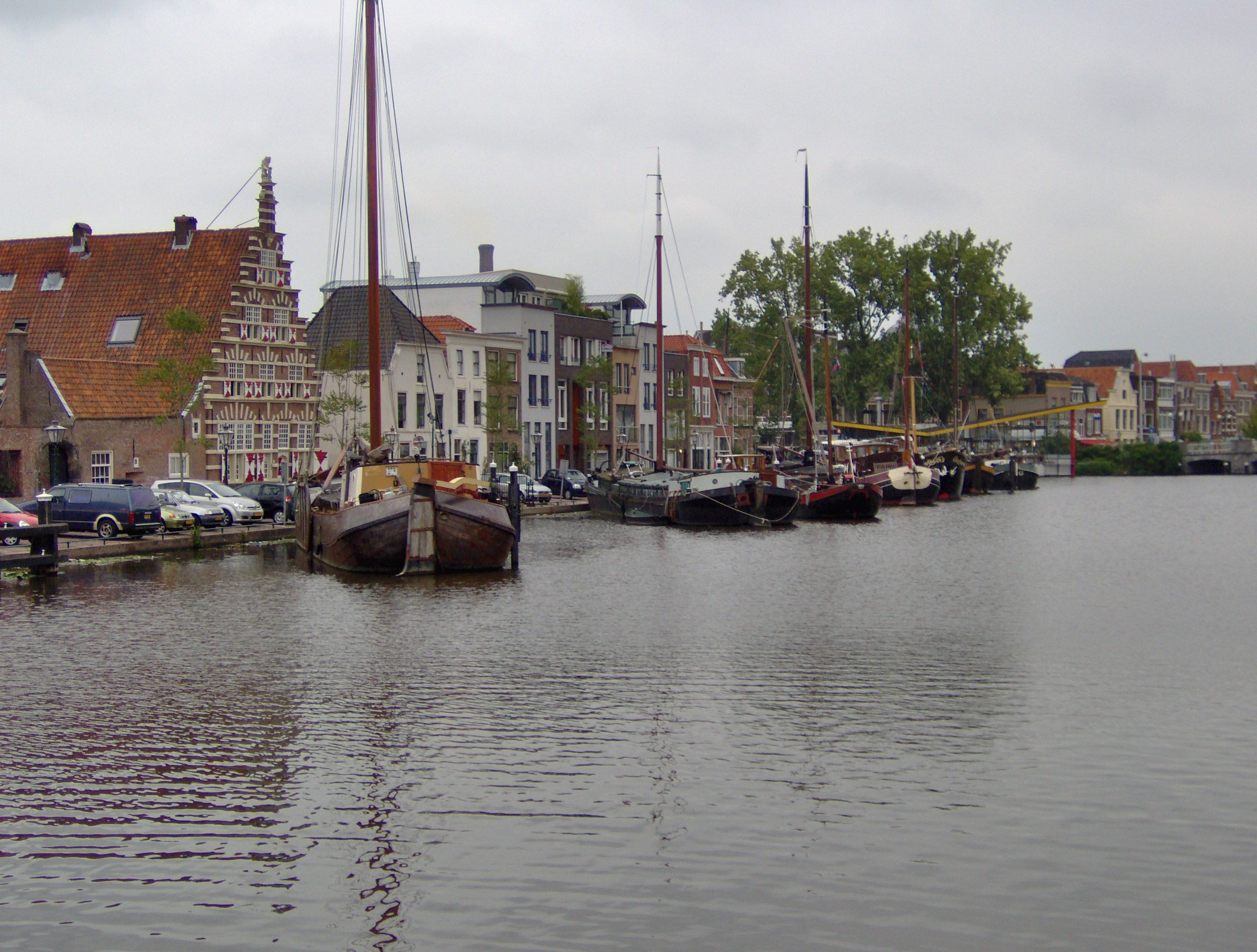 The canal Galgewater in Leiden, The Netherlands